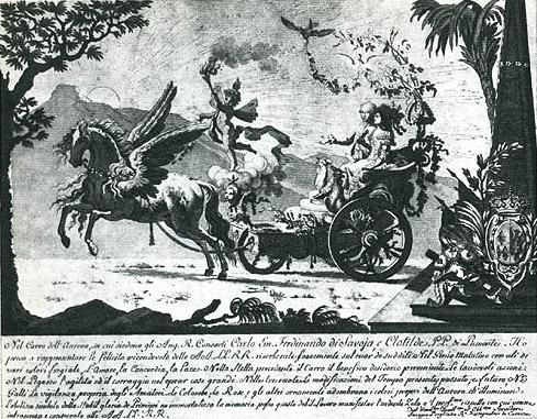 Allegorical drawing of the marriage of Marie Clotilde of France with the Prince of Piedmont in August 1775